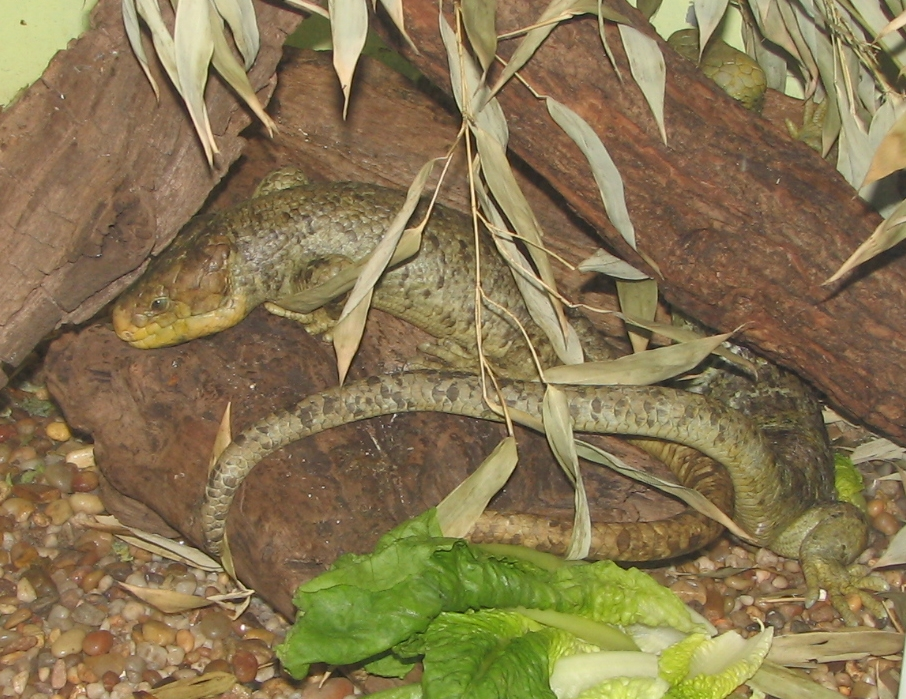 Solomon Island Skink (Corucia zebrata)